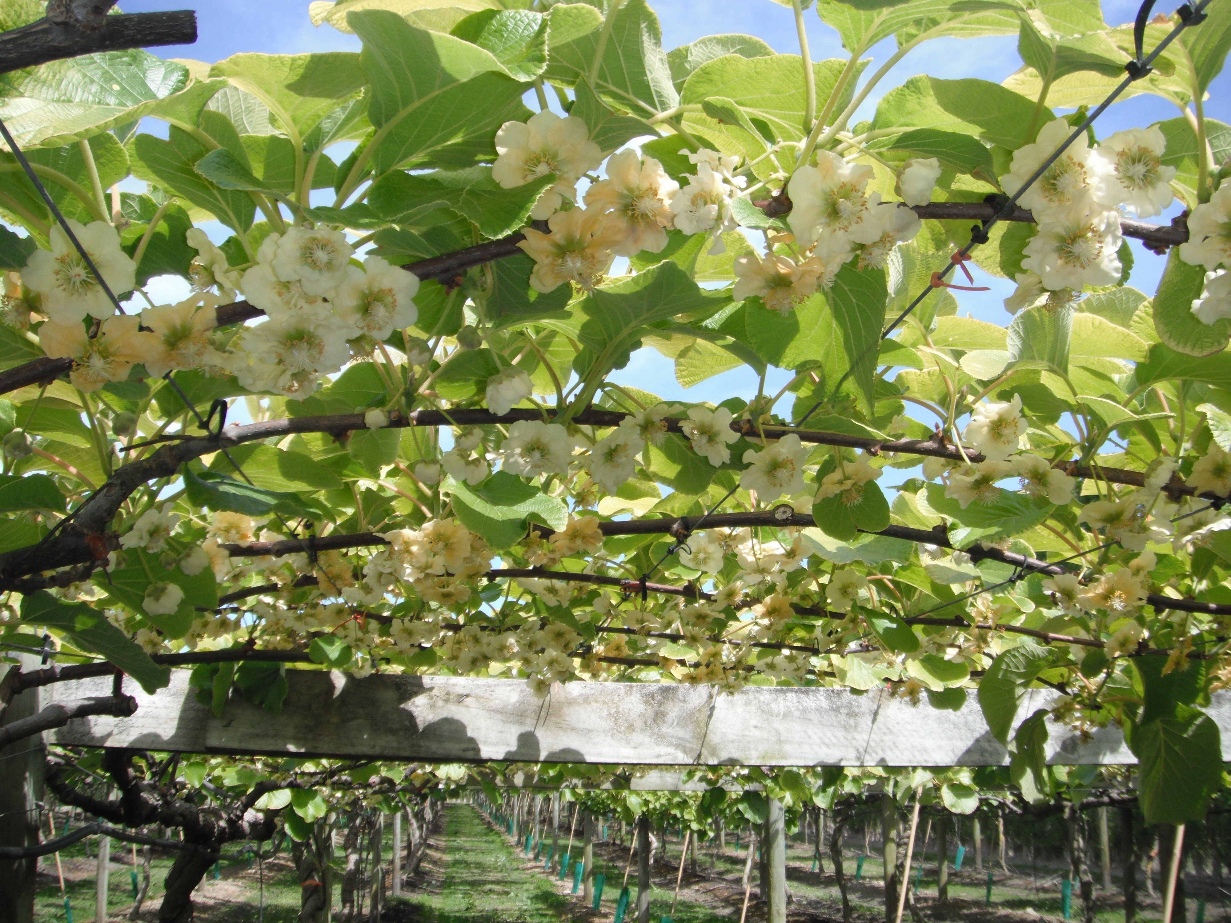 Hort16a Kiwifruit vines at flowering